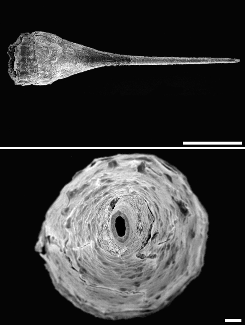 Scanning electron microscopic (SEM) images love-dart of Xerarionta kellettii. Upper image is love dart from side view while the measure is 500 μm (0.5 mm). Lower image is cross-section while the measure is 50 μm.